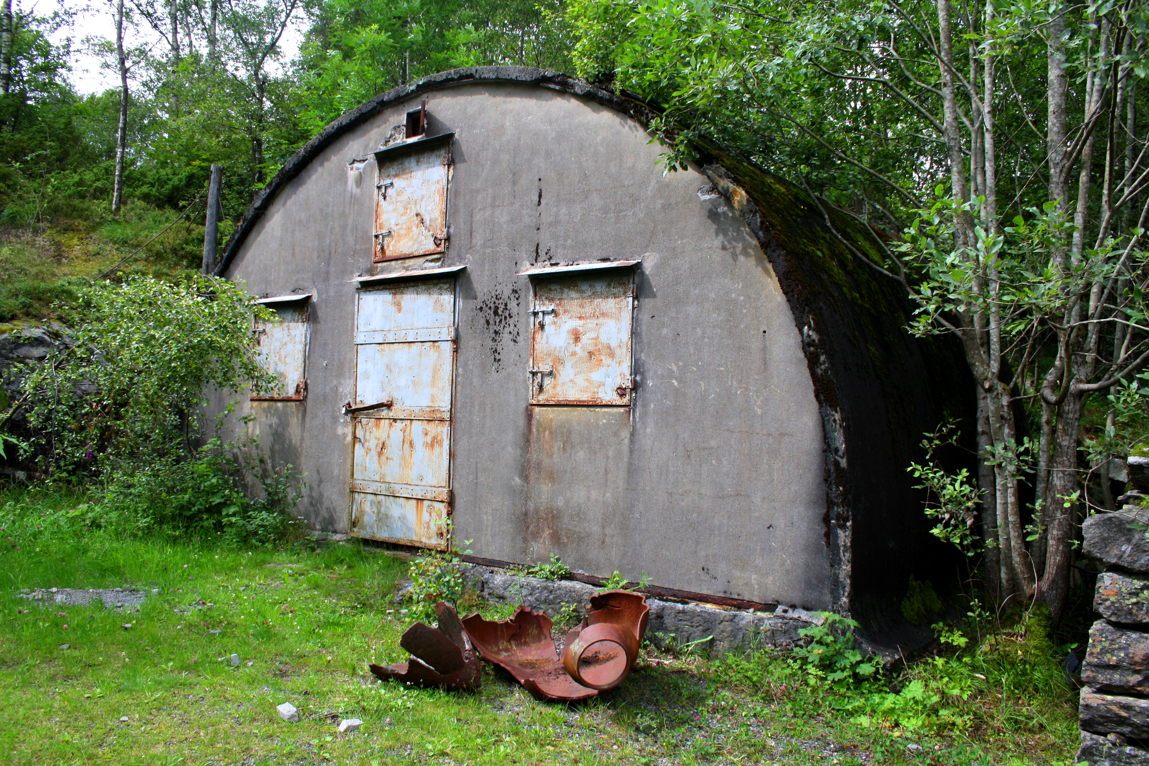 Kvarven fort, Monier concrete storage, 1899